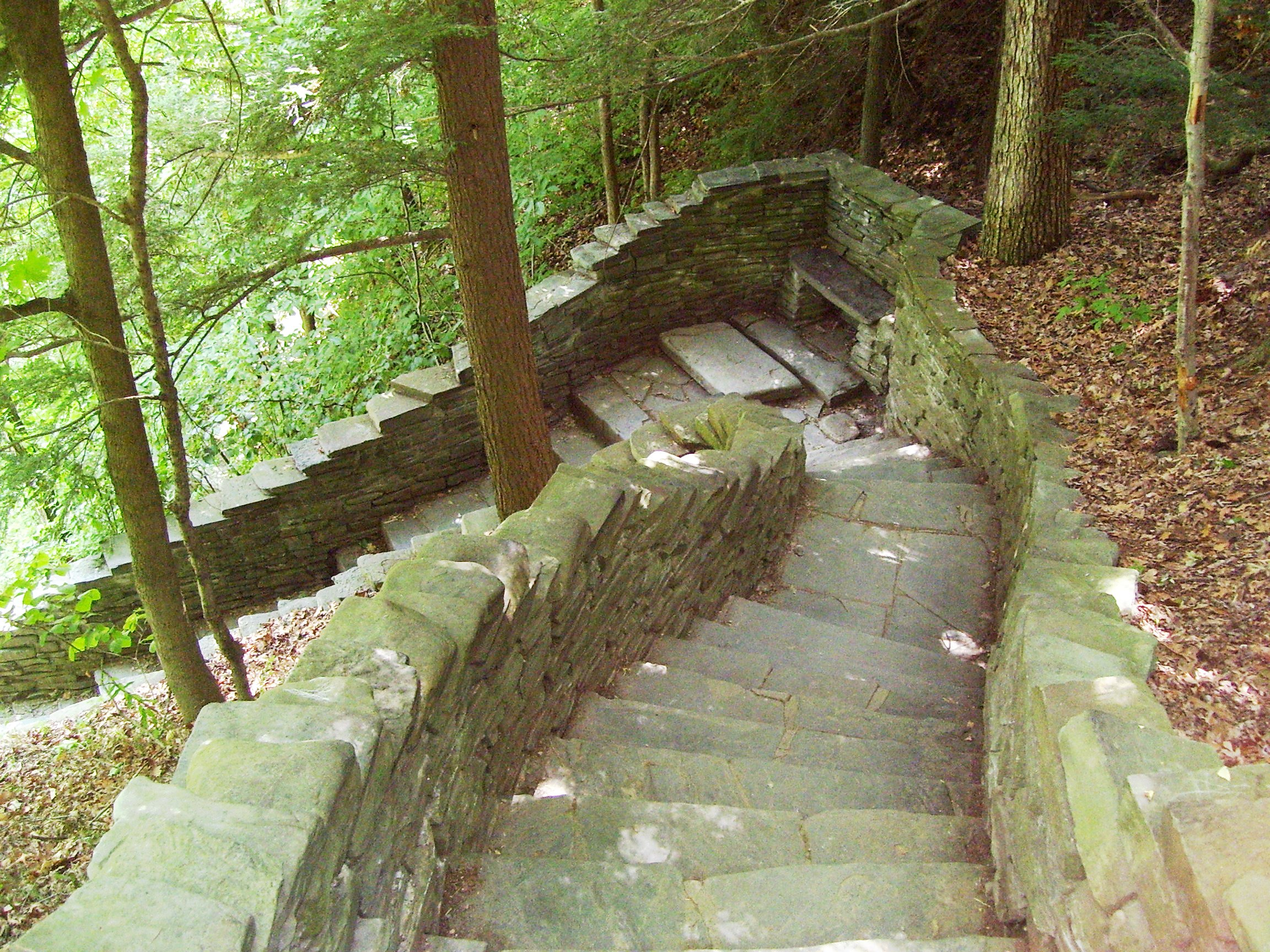 Jacob's Ladder in Watkins Glen State Park has 180 stone steps from the Upper Entrance to the park to the Gorge Trail along Glen Creek. The trail from one end of the park to the other contains over 800 steps.